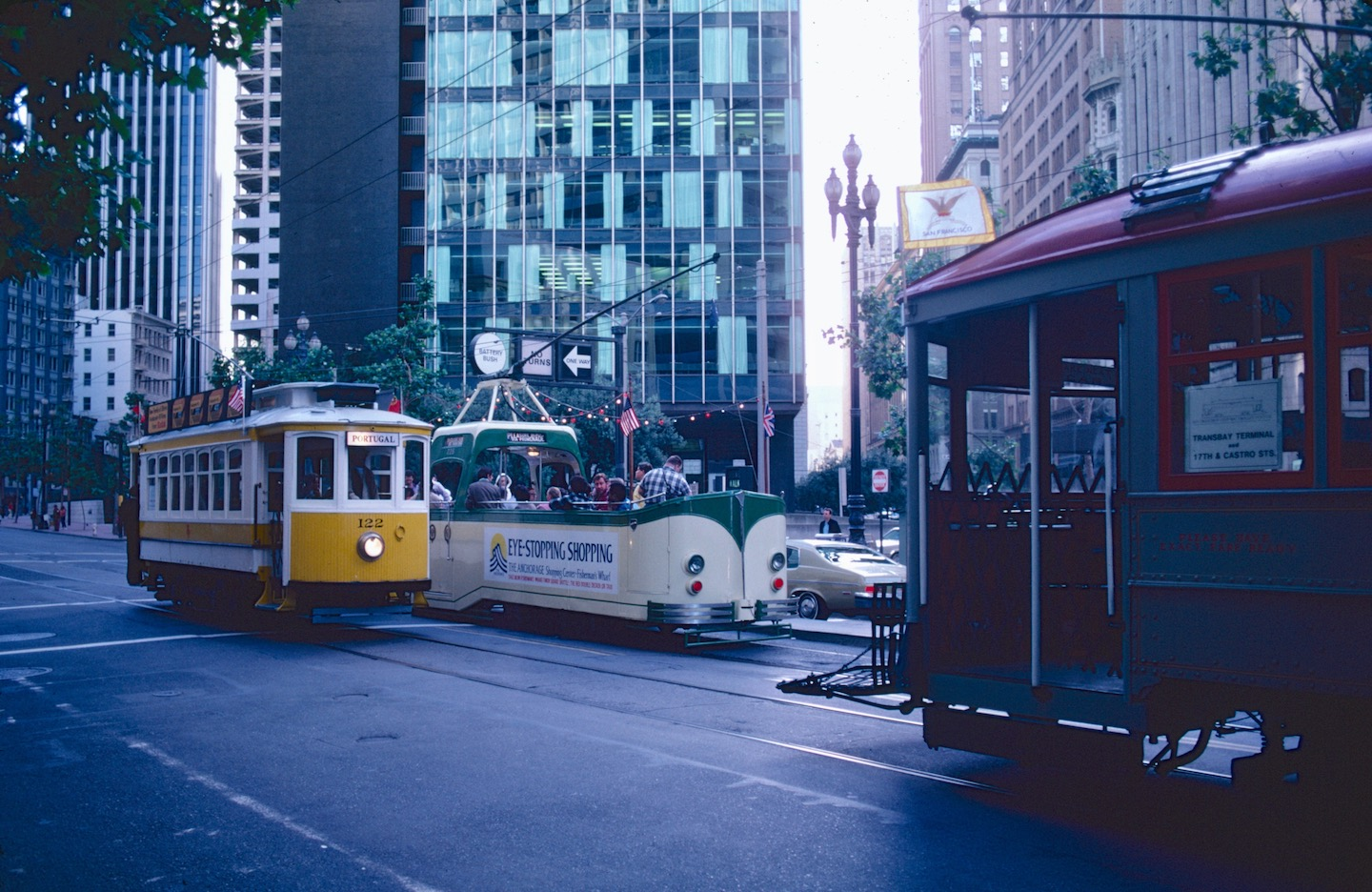 Three streetcars pose for photos during the first San Francisco Historic Trolley Festival, in 1983. Porto 122, Blackpool 226 and S.F. Muni car 1 (part, in foreground) are on Market Street at First Street on July 2, 1983, during a mostly unpublicized restaging of the festival's Opening Day Parade (of June 23). The restaging was held in order to enable Muni's photographer to get better publicity photos, because the original parade had seen the streetcars separated by traffic, not kept together.